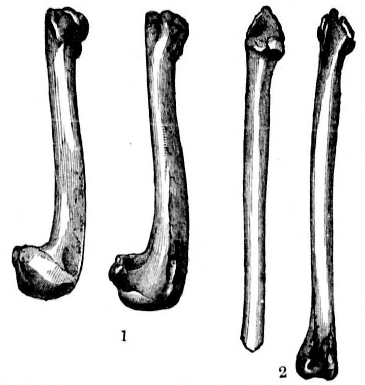 Bones of a Great Auk from a kitchen midden The Great Auk, or Garefowl: Its history, archaeology, and remains by Grieve, Symington (1885) published by Thomas C. Jack, London. Original image caption: 1. Two Humeri; and, 2, two Tibiae of the Great Auk (Alca impennis), found in a kitchen midden at Keiss, Caithness-shire (half the natural size).